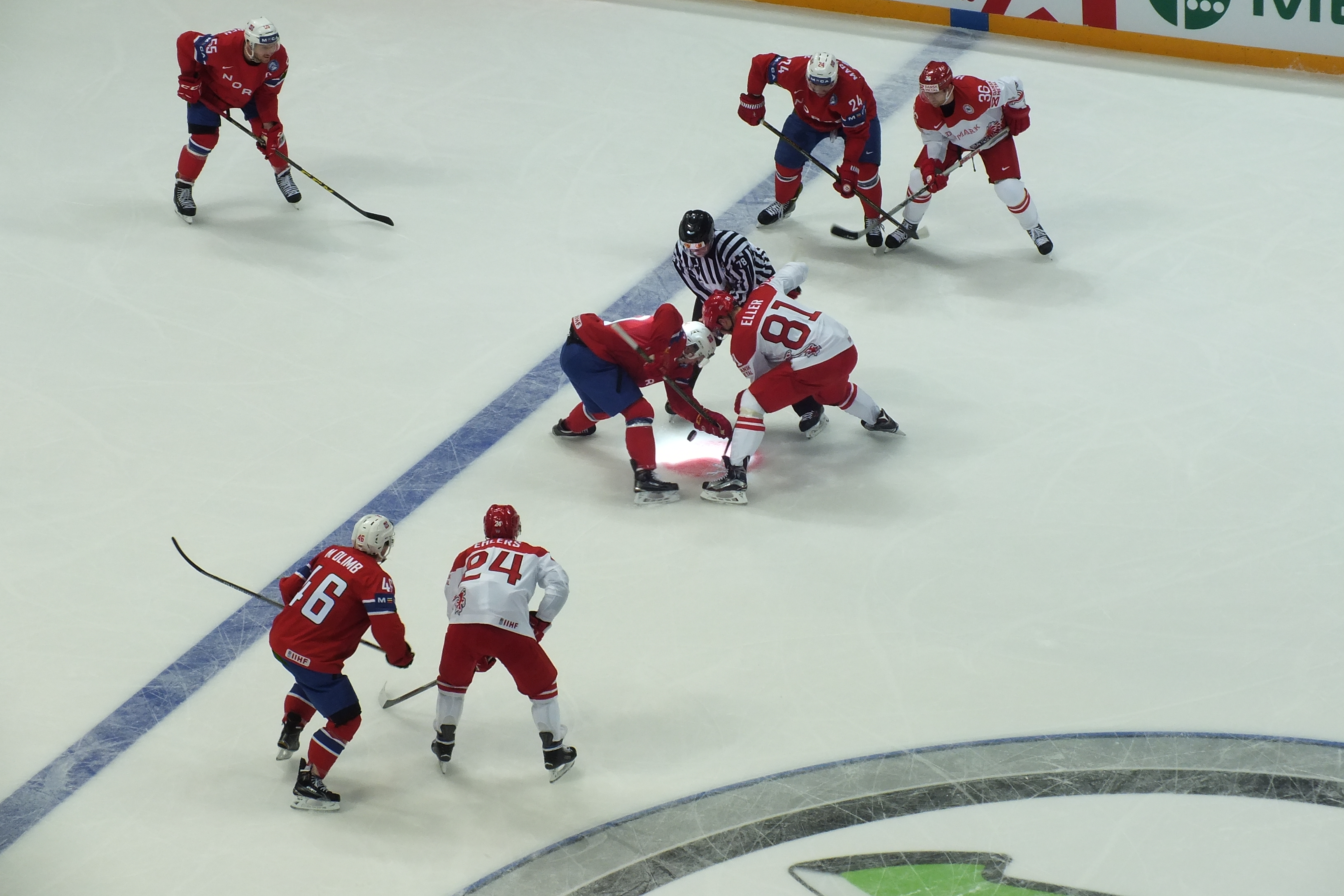 2016 IIHF World Championship - Norway vs. Denmark (07.05.16).